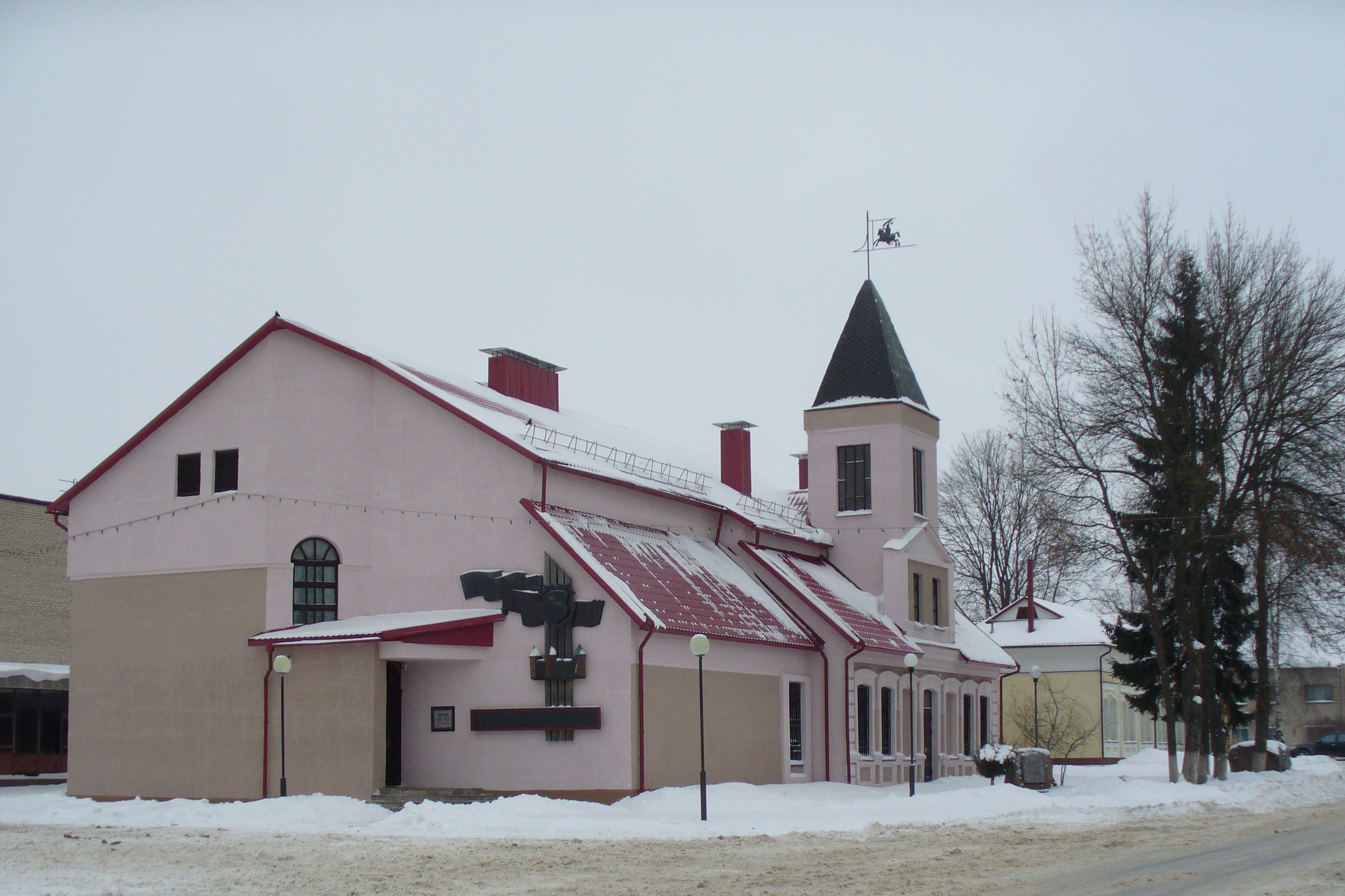 Haradok Беларуская (тарашкевіца): Гарадок